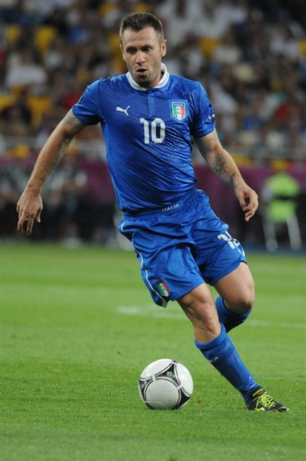 Antonio Cassano at Euro 2012 match against England